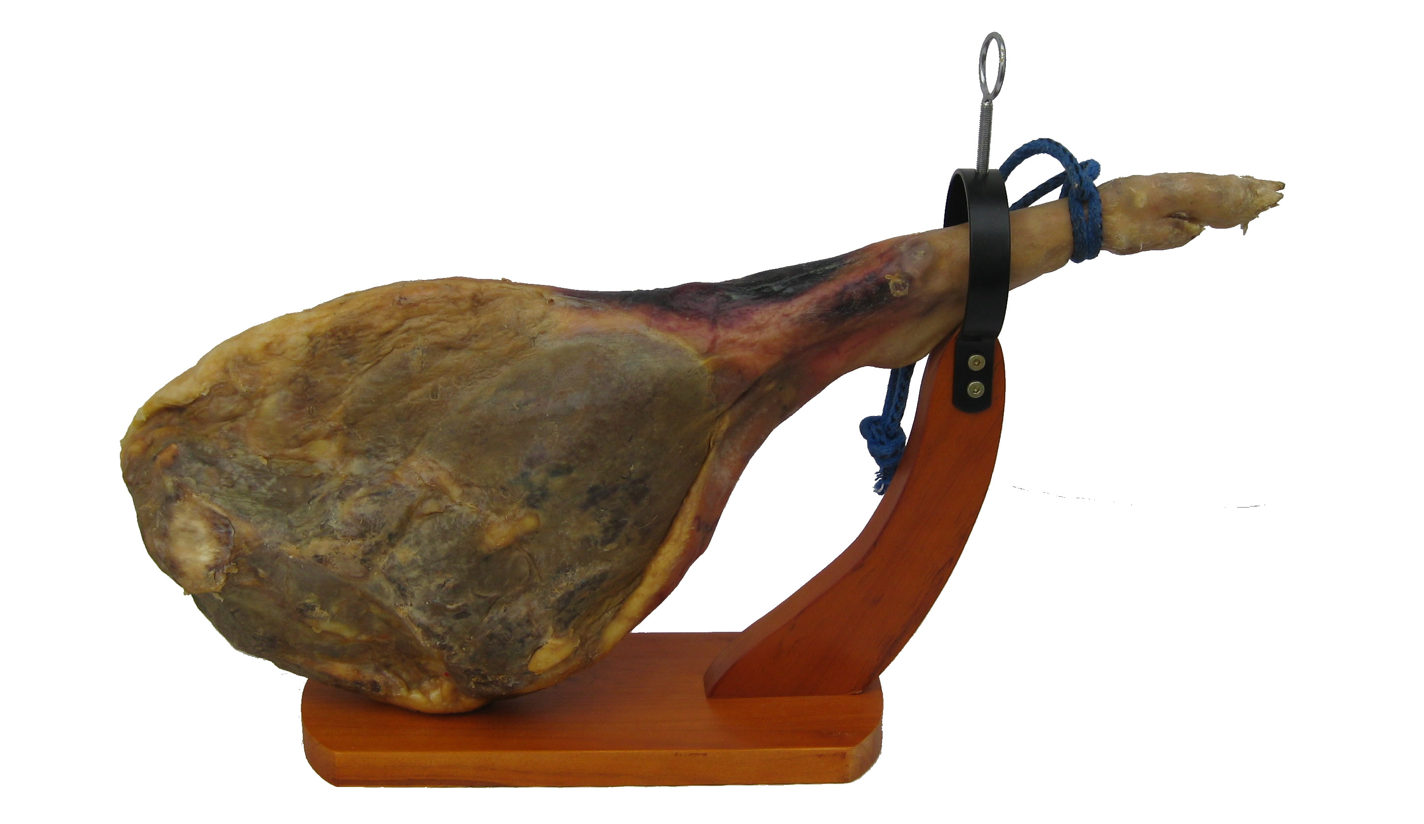 Trevélez Ham